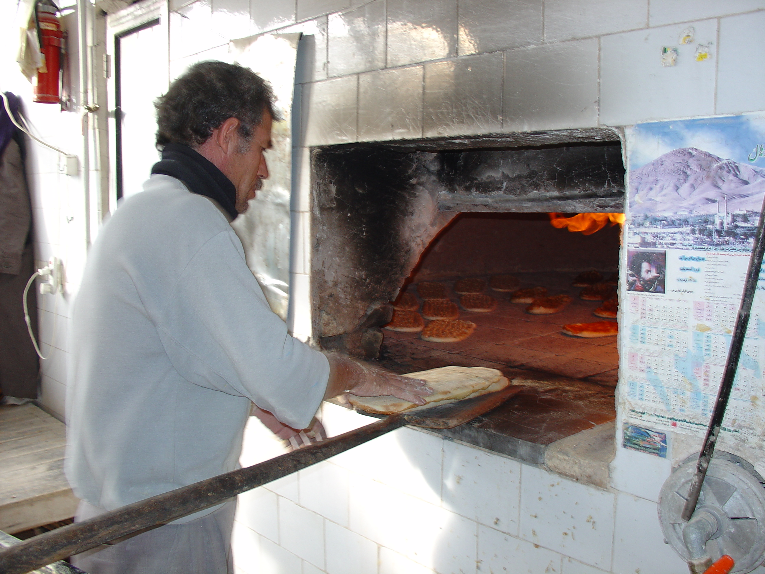 A Baker is baking "Barbary" bread. The oven is heated by jets of burning gas. Iran